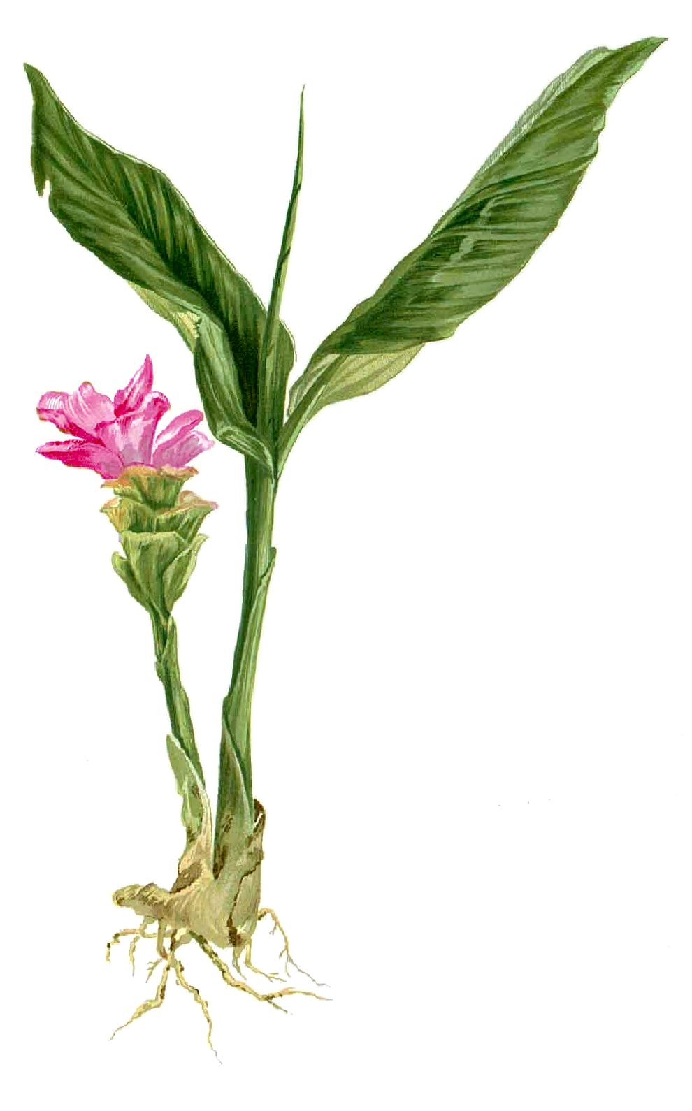 Plate from book